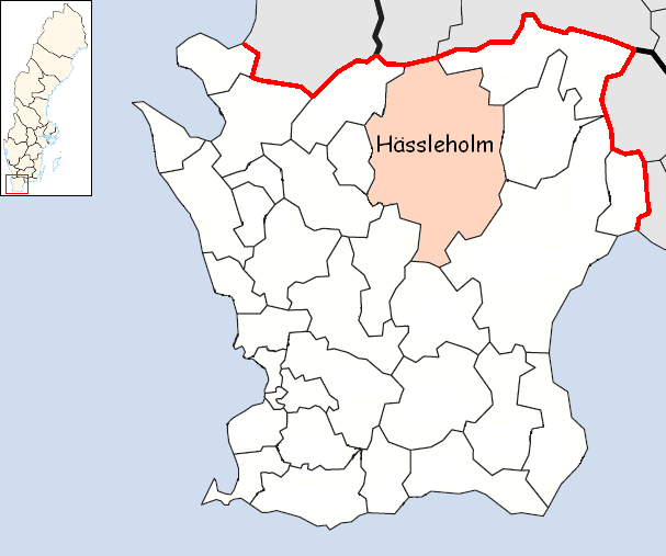 Hässleholm Municipality in Scania, Sweden Designed by me. Mere outlines are a PD source from